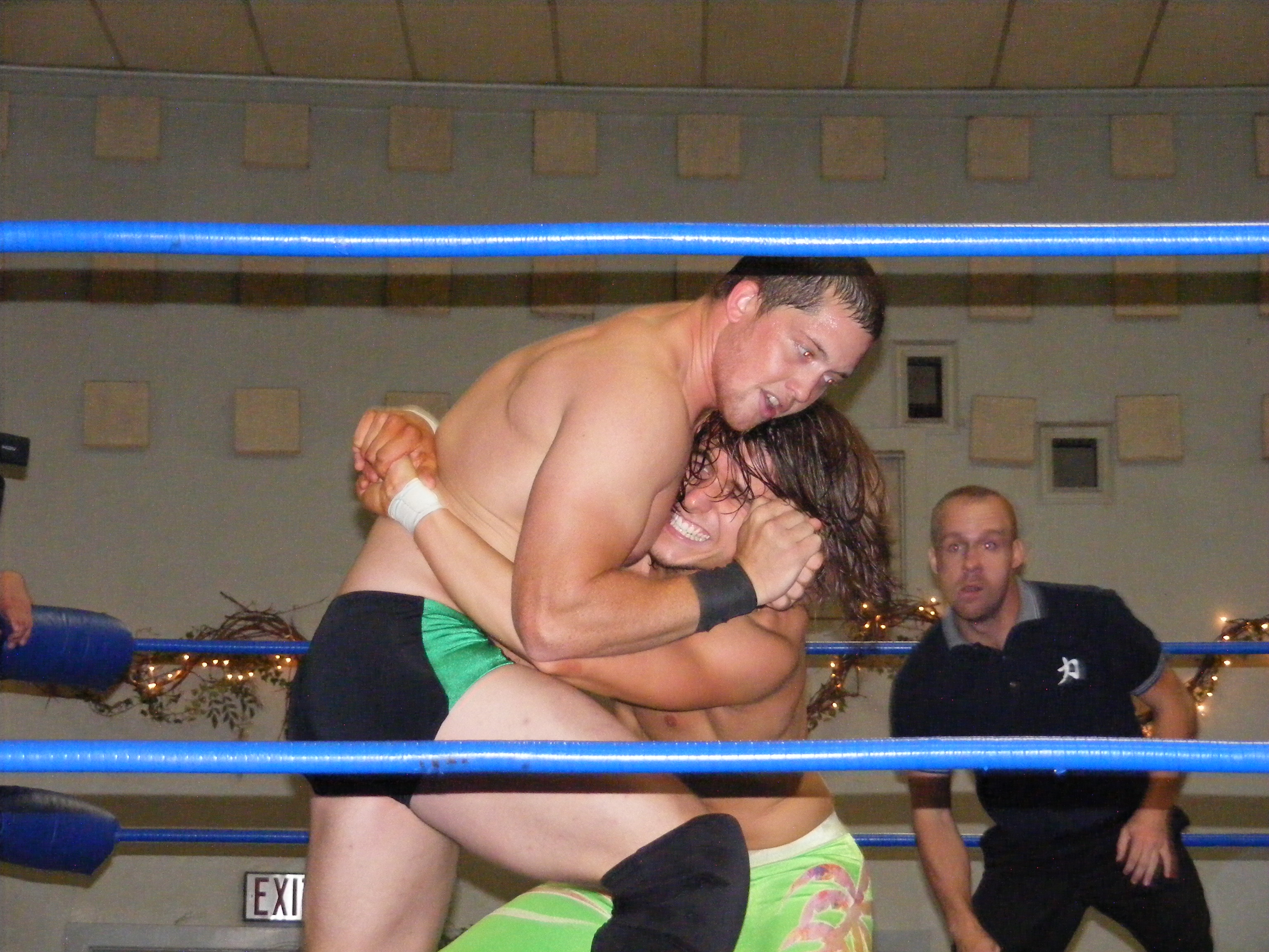 Adam Cole vs. Kyle O'Reilly, Chikara's Young Lions Cup Night 2 in Reading PA, AUgust 28, 2010.